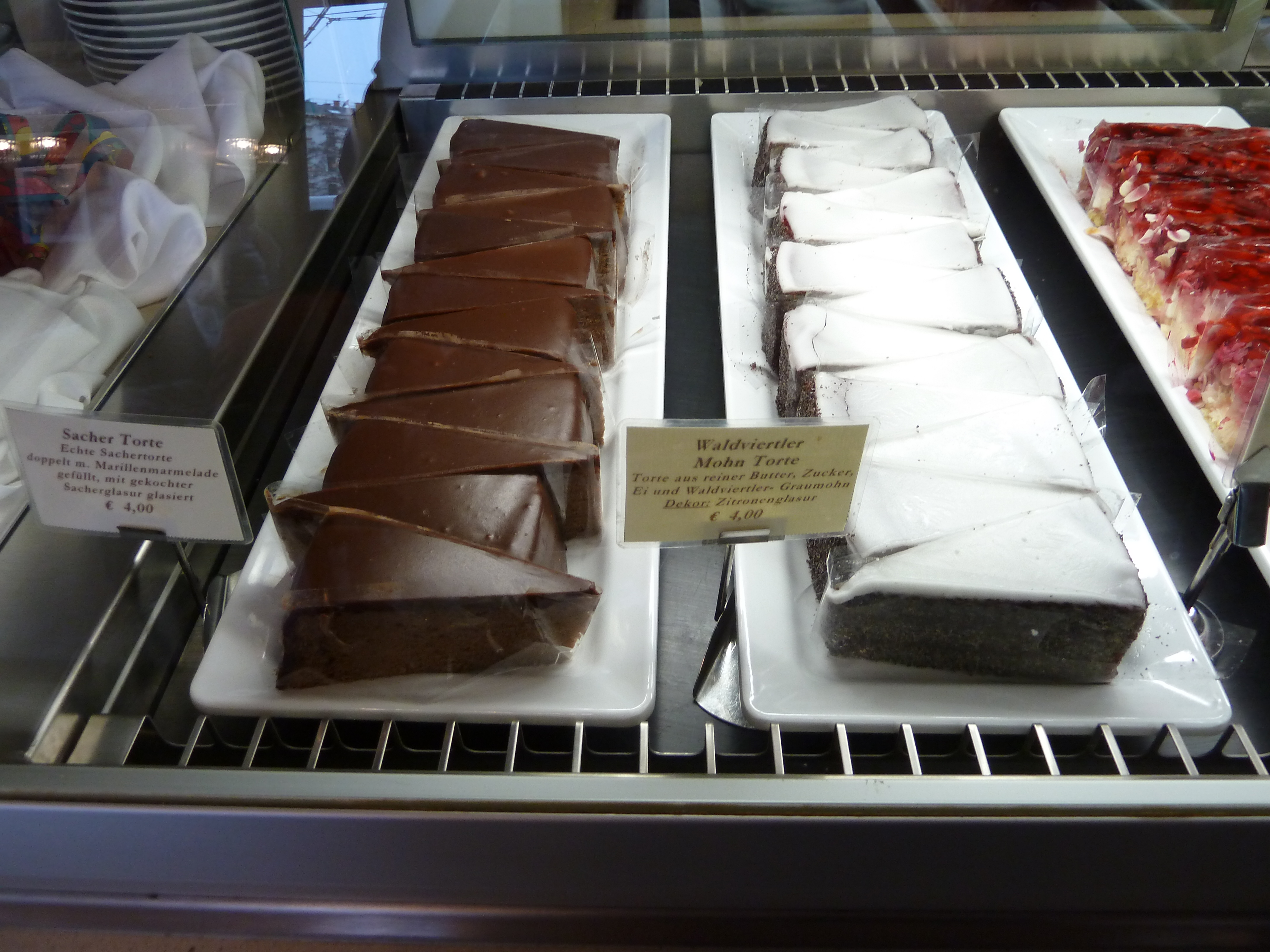 Café Schwarzenberg in Vienna, Austria